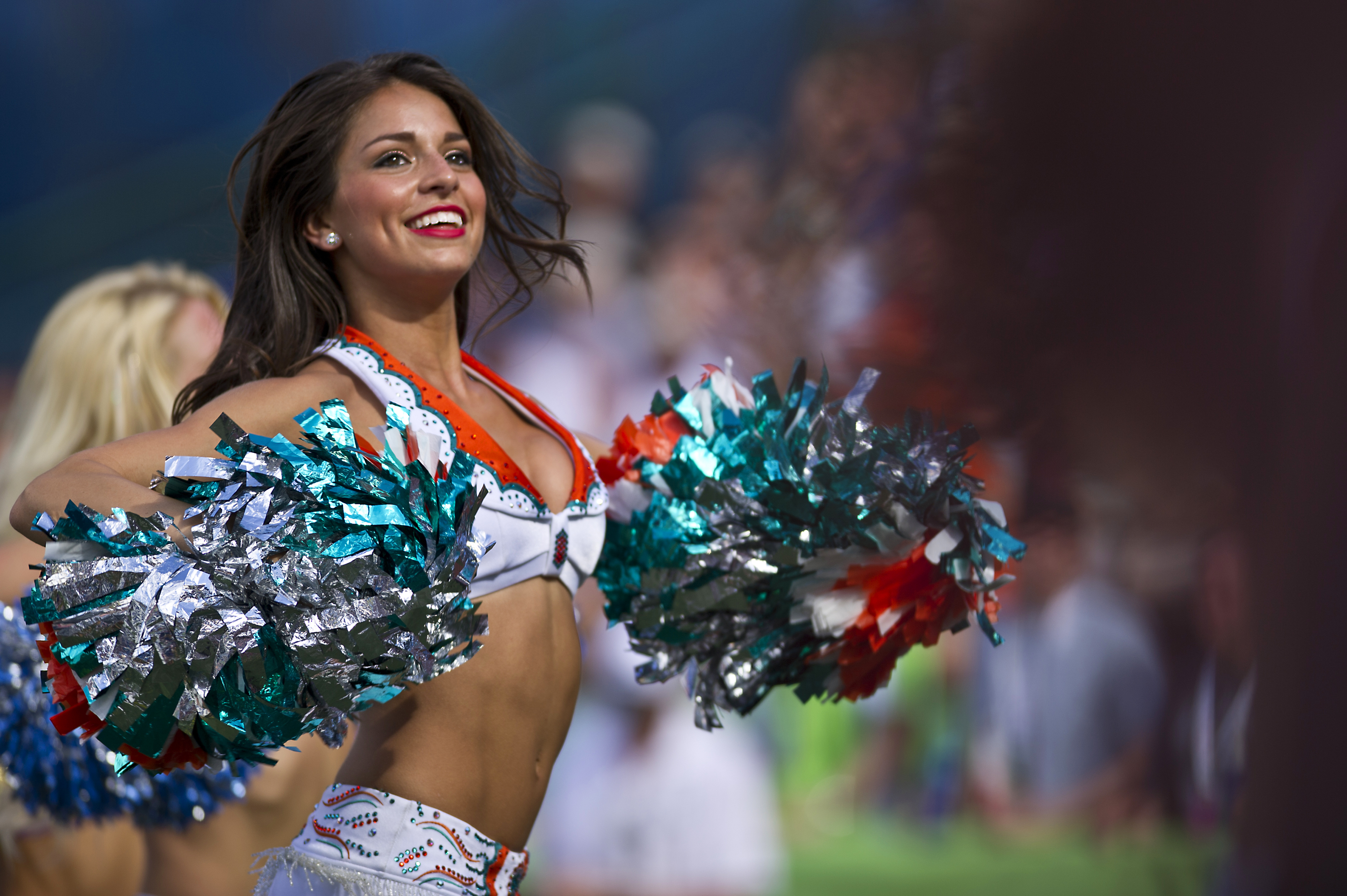 A Miami Dolphins cheerleader performs at Aloha Stadium during the 2012 National Football League Pro Bowl in Honolulu Jan. 29, 2012. Several hundred U.S. Service members assigned to bases throughout Hawaii were honored during the 2012 Pro Bowl halftime show.